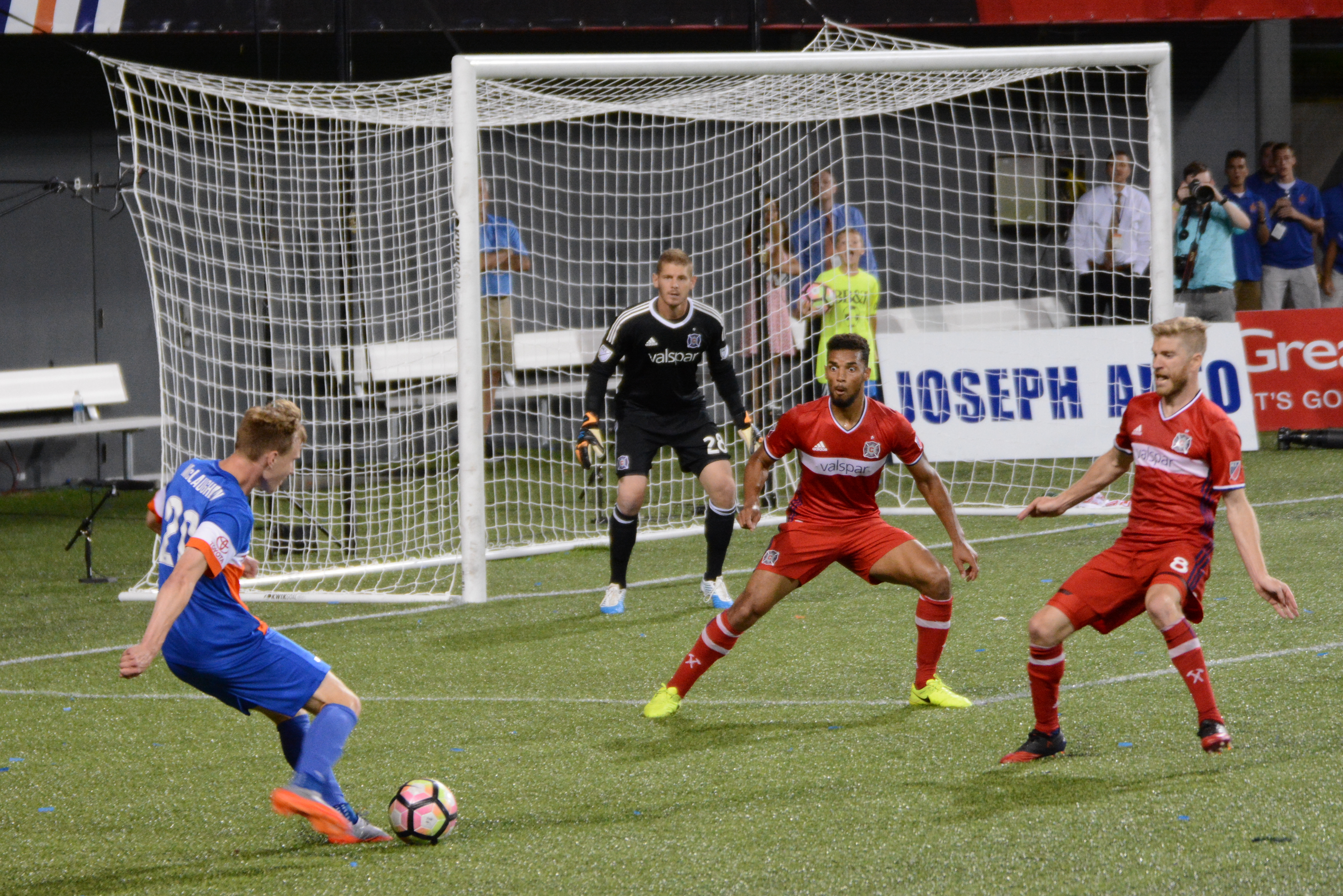 also pictured: Matt Lampson, Johan Kappelhof, Michael de Leeuw Taken at a U.S. Open Cup match between FC Cincinnati and Chicago Fire SC at Nippert Stadium in Cincinnati, Ohio on June 28, 2017.